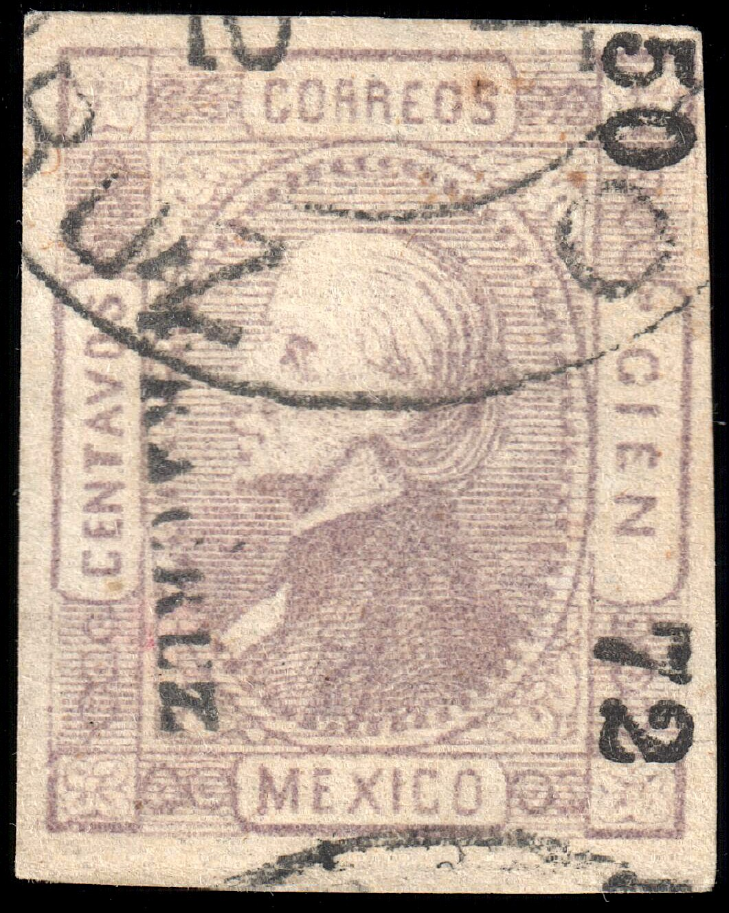 Mexico 1872 Hidalgo 100c lilac, Sc98a. Moire on the back, unwatermarked and imperforate. District overprint 'VERACRUZ' consignment number '50', year '72'.